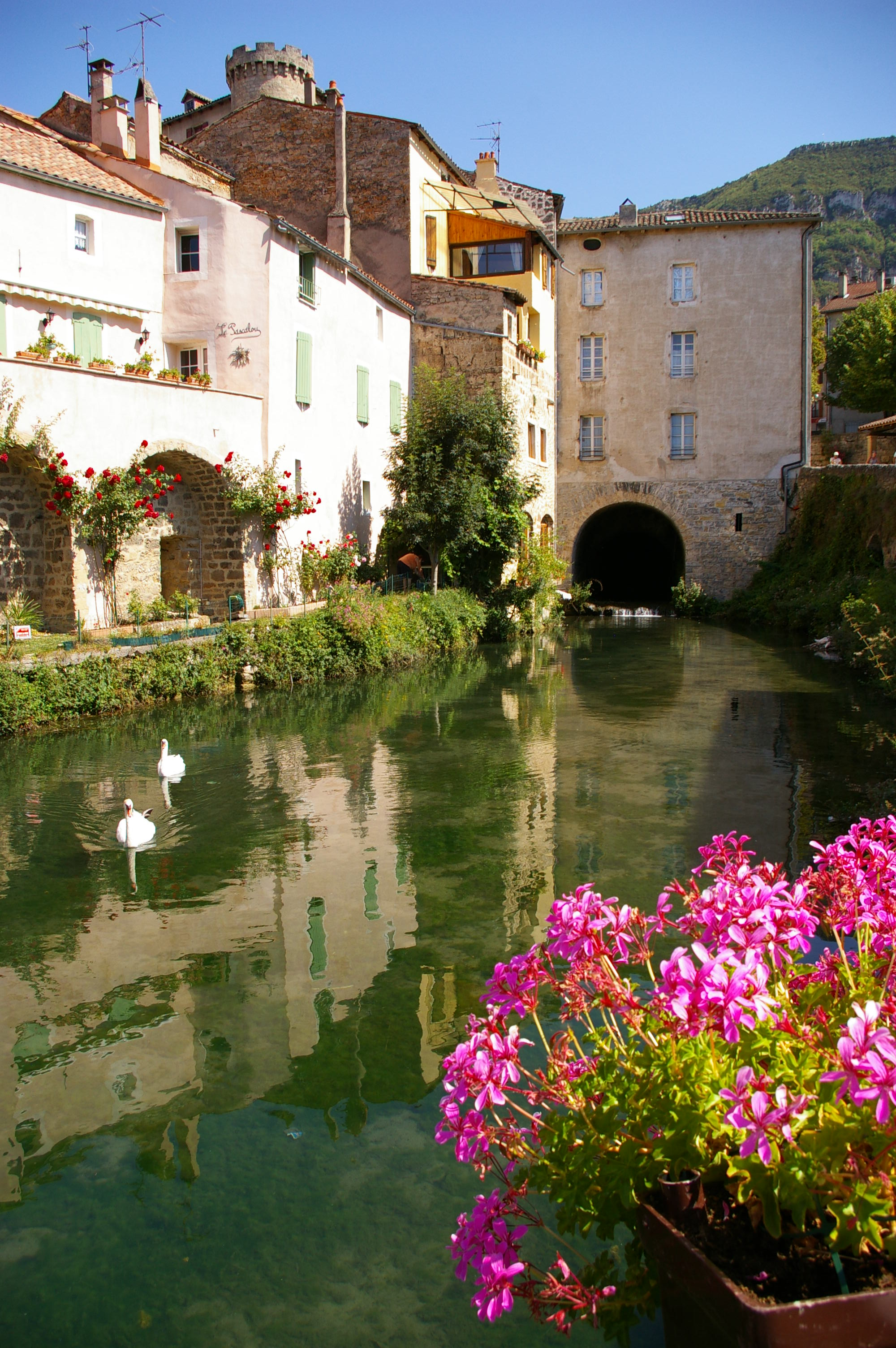 Creissels, Dept. Aveyron, near the Rue de la Fontaine